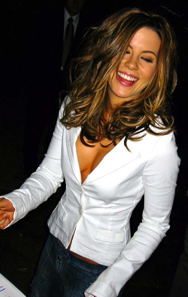 Kate Beckinsale after the premiere of Underworld (the first one) at the Toronto Film Festival 2003.